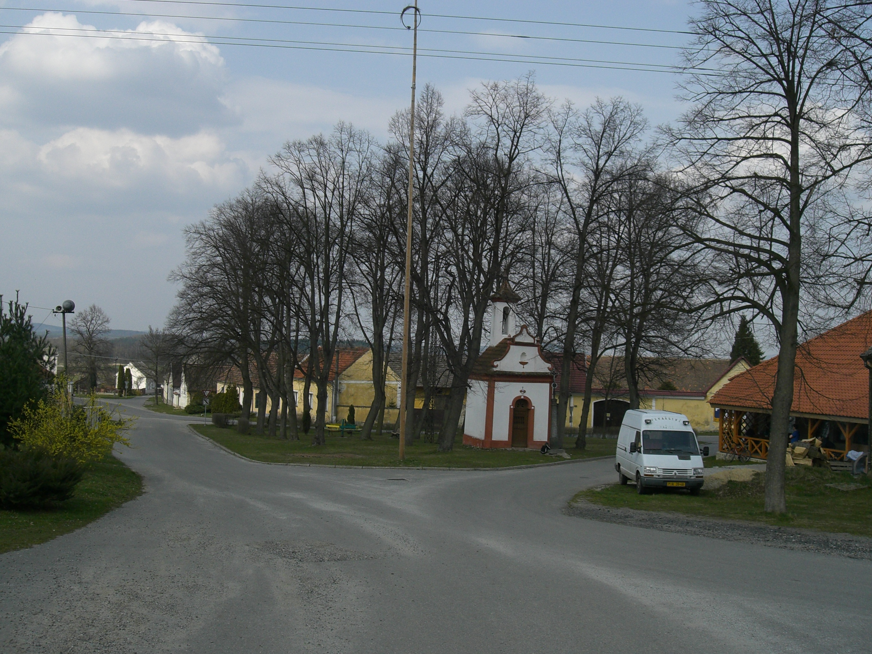 Ražice village in Písek district, Czech Republic - Chapel.